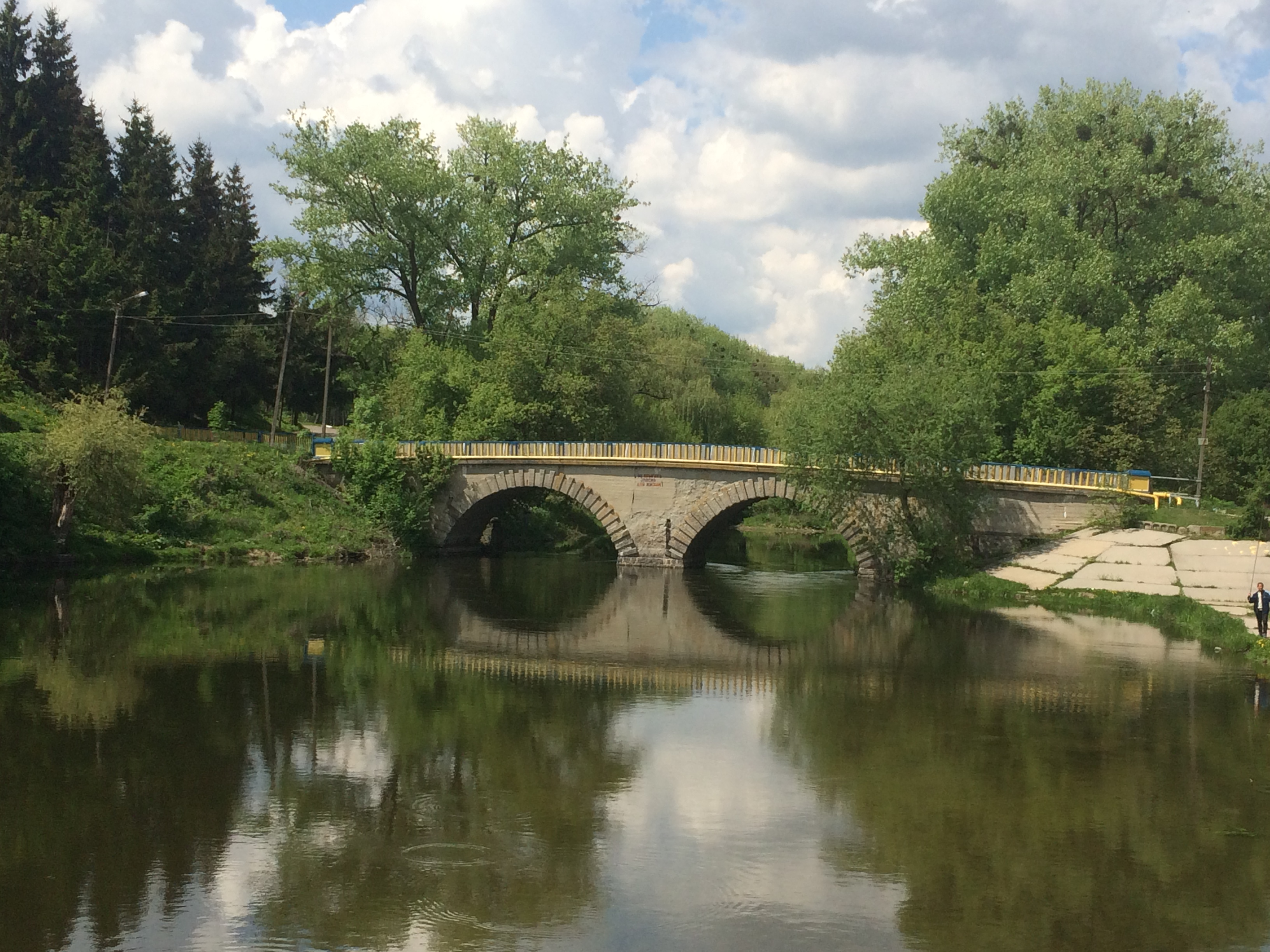 bridge in a Venezian style